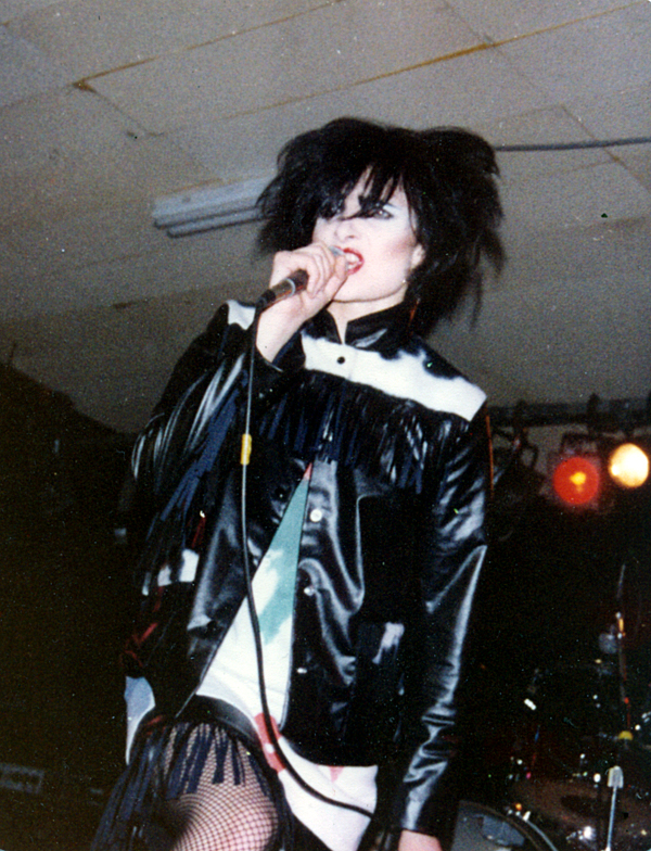 Siouxsie Sioux, My Father's Place, NYC Nov. 1980